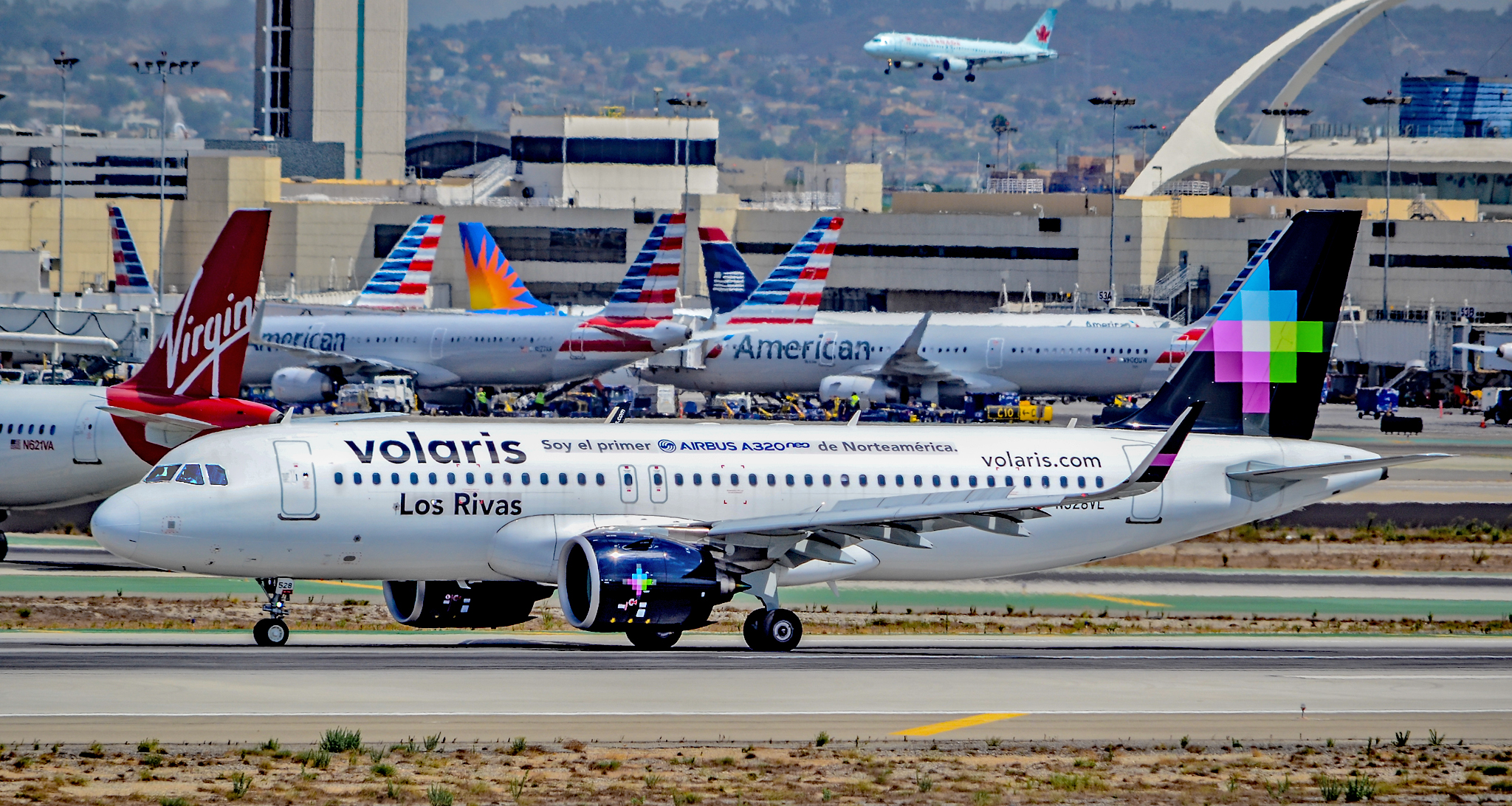 Volaris Airbus A320neo at Los Angeles International Airport, September 3, 2017